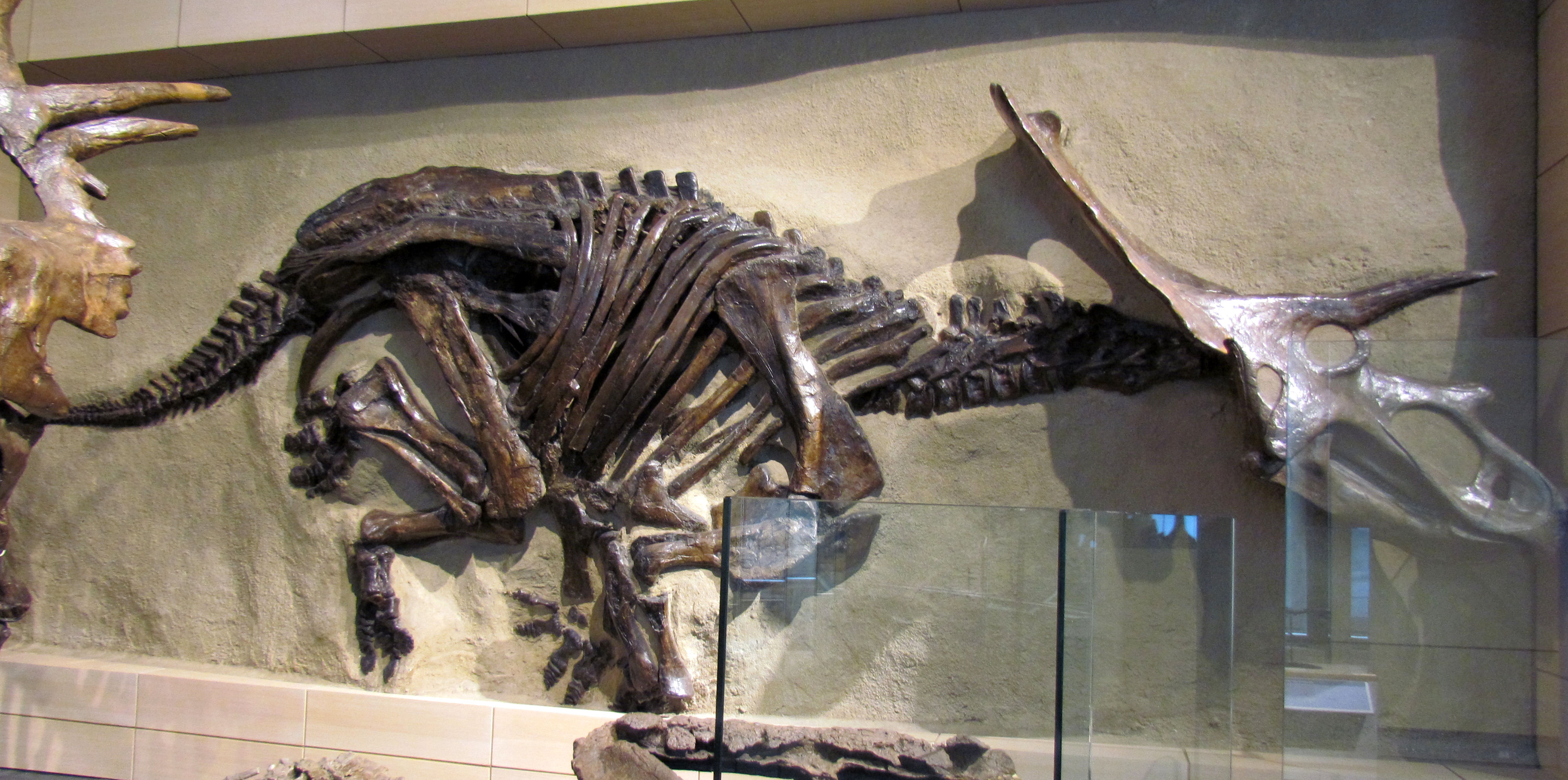 Anchiceratops ornatus, at Canadian Museum of Nature, Ottawa, Ontario